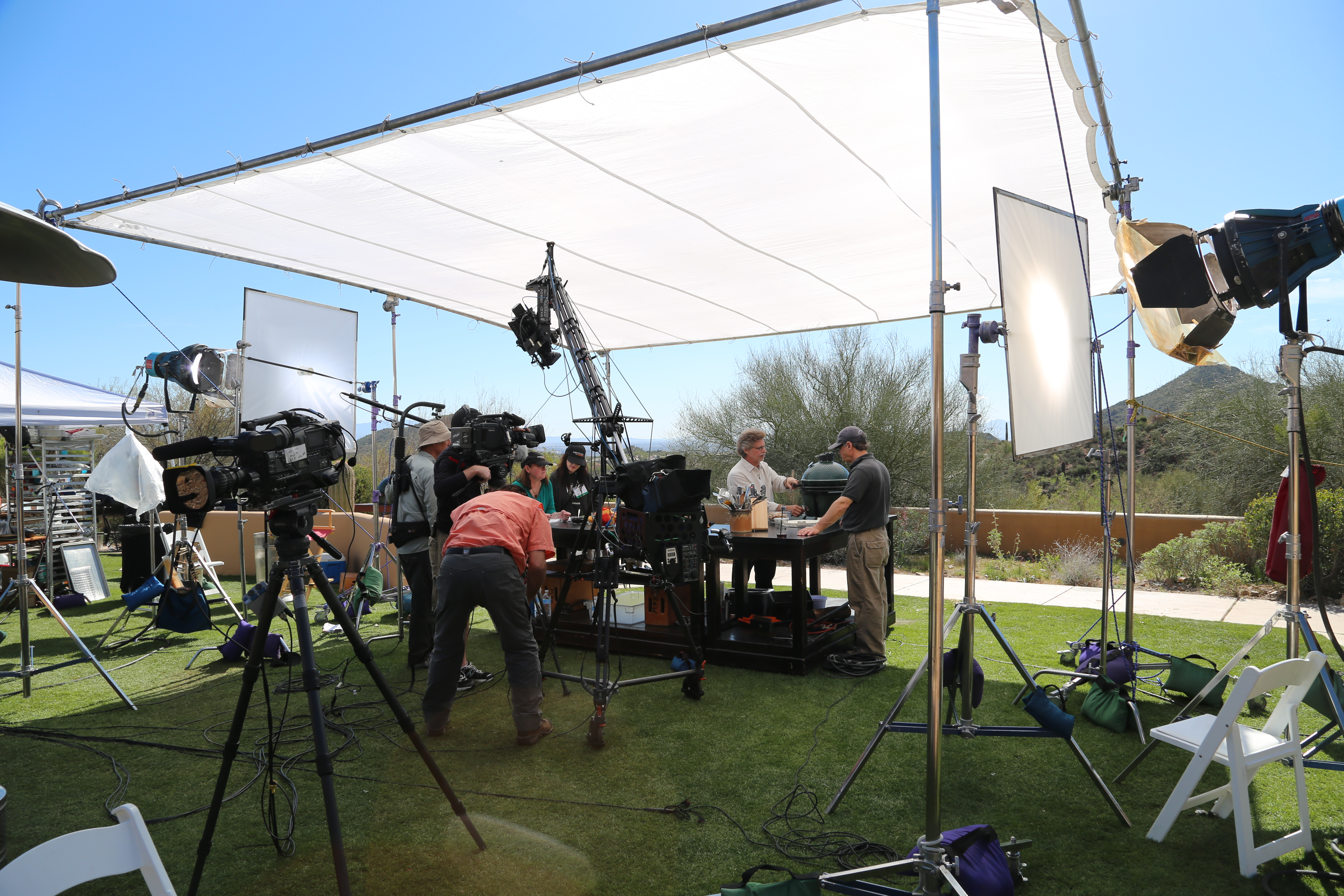 On location in Tucson, Arizona shooting Steven Raichlen's Project Smoke at the Marriott Starr Pass Resort